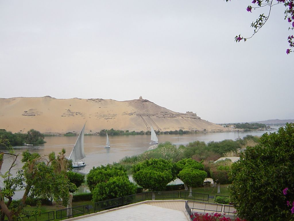 View of Qubbet el-Hawa and the Nile. View west from the Aswan Botanical Garden - on Kitchener's Island, Aswan - Egypt. Showing tombs and coptic church site on far slope.